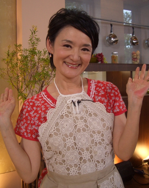 Tan Aizhen at Da Ai Television